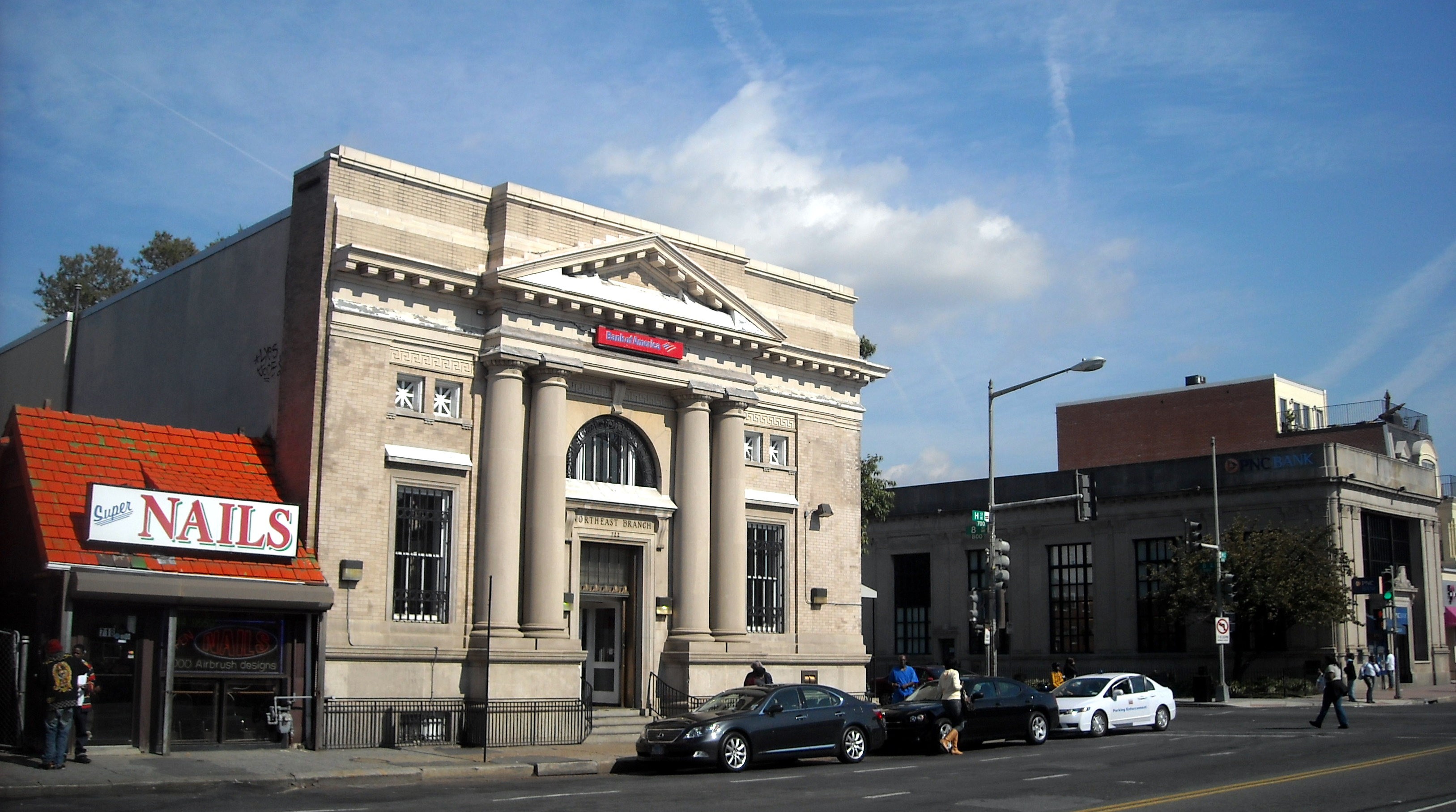 Super Nails, a Bank of America branch, and across the street, a PNC Bank branch, located at 718, 722, and 800 H Street, N.E., in the Near Northeast neighborhood of Washington, D.C. 718 H Street, N.E. - Super Nails Built in 1935 for $7,500, the one-story, cinder block and brick nail salon was designed by architect G. B. Wenner. The building originally served as Little Tavern Shop No. 12, a diner operated by the now-defunct Little Tavern Shops, Inc. 722 H Street, N.E. - Bank of America Built in 1912 by the Melton Construction Company (on land previously occupied by the residences of Daniel Olin Leech, a physician, and Lena Beuchert), the neoclassical bank was designed by prominent, local architect Appleton P. Clark. The building originally served as the North Branch of Home Savings Bank, which merged with the American Security and Trust Company in 1918. A 1935 addition to the building, which nearly doubled its size, was also designed by Clark. 800 H Street, N.E. - PNC Bank Built in 1921 by J. L. Parsons, the bank's restrained interpretation of Beaux-Arts style was designed by prominent, local architect B. Stanley Simmons. The building originally served as a branch of the National Bank of Washington.